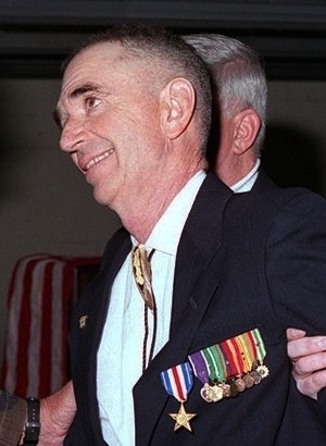 Lieutenant General P. K. Van Riper, Commanding General Marine Corps Combat Development Command, congratulates Gunnery Sgt. Carlos Hathcock (Ret.) after presenting him the Silver Star during a ceremony at the Weapons Training Battalion. Standing next to Gunnery Sgt. Hathcock is his son, Staff Sgt. Carlos Hathcock, Jr. ID: DM-SD-98-02324